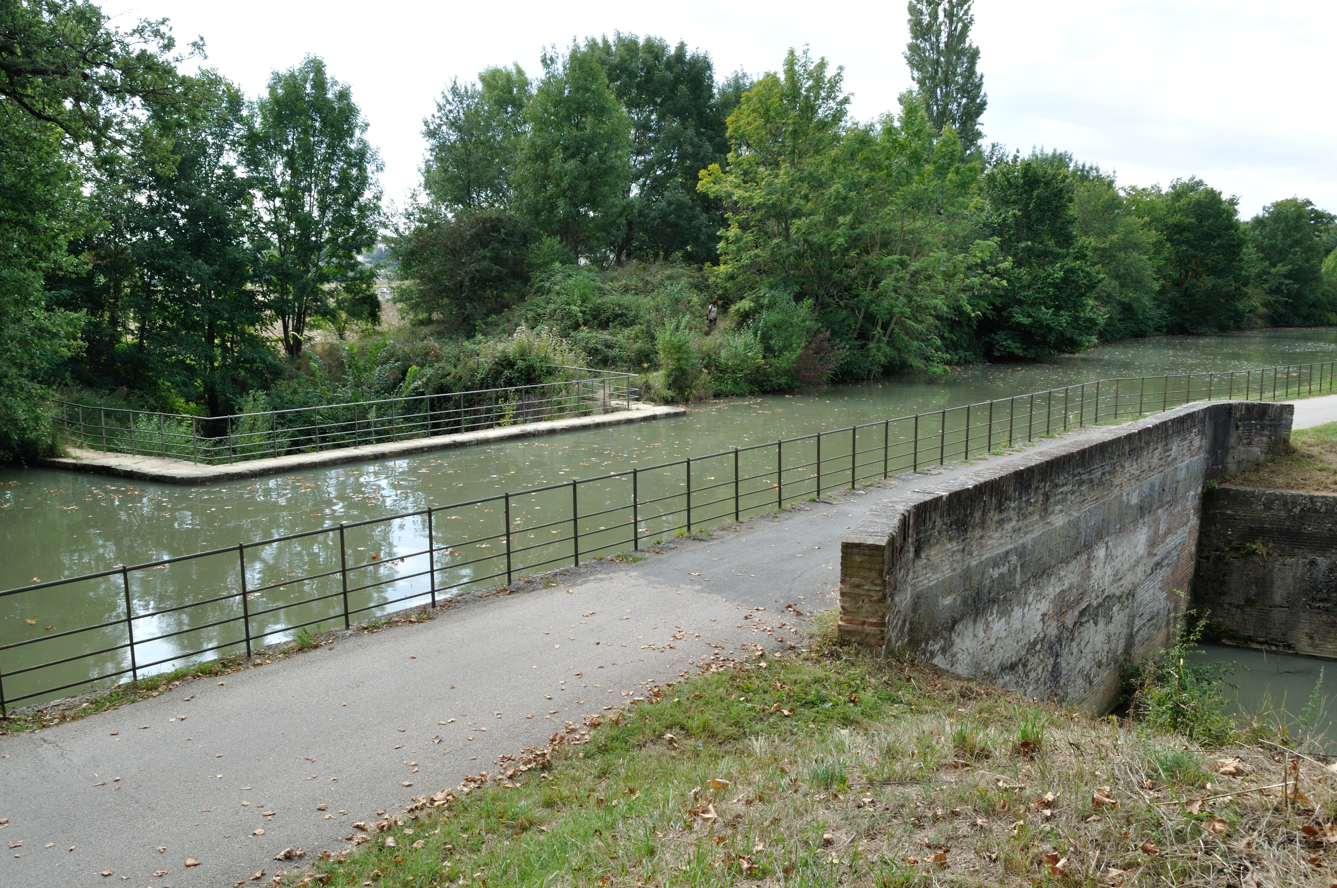 The Rieumory Aqueduct on the Canal du Midi, in Péchabou.